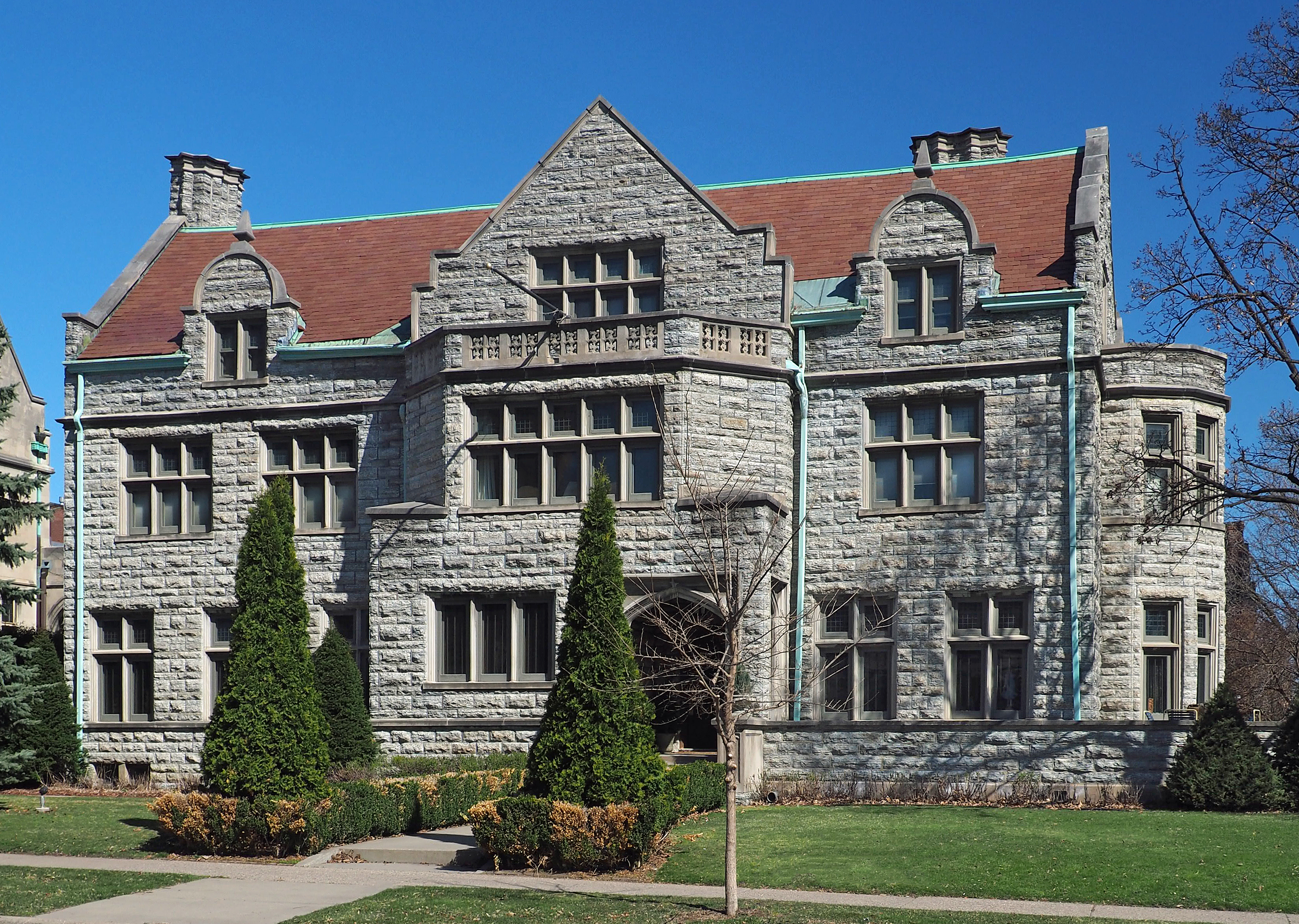 Alfred F. Pillsbury House, 116 22nd St E, Minneapolis, Minnesota, USA. Viewed from the south-southeast. A contributing property to the Washburn–Fair Oaks Mansion District.